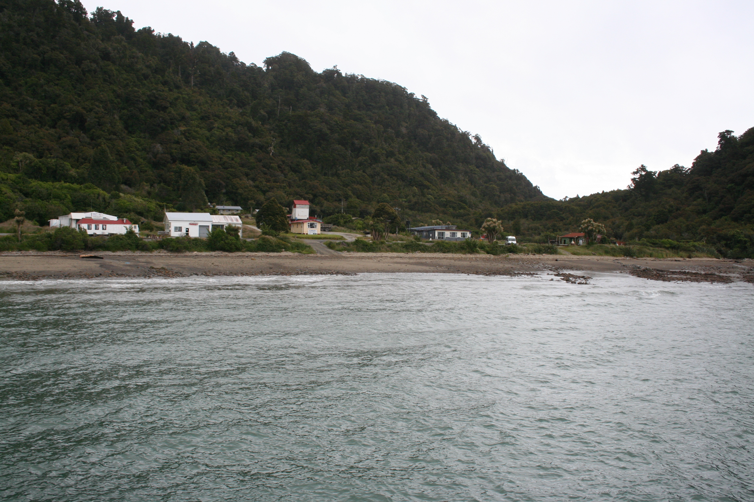 Fishing village of Jackson Bay, Southern Island, West Coast, New Zealand